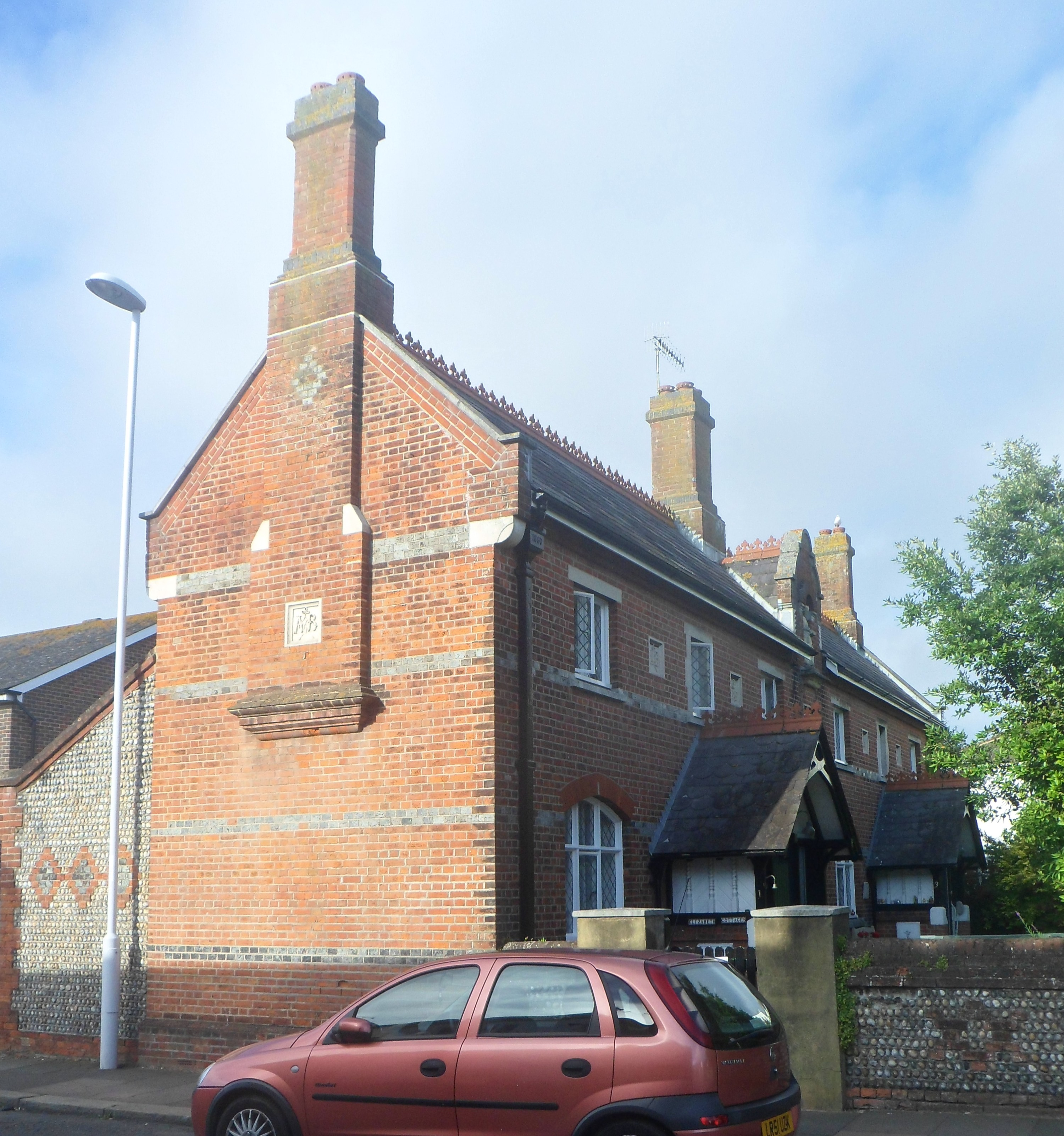 Elizabeth Almshouses, Elizabeth Road (junction of Clifton Road), Worthing, West Sussex, England. A set of four almshouses built in 1860 to the design of William Burges.